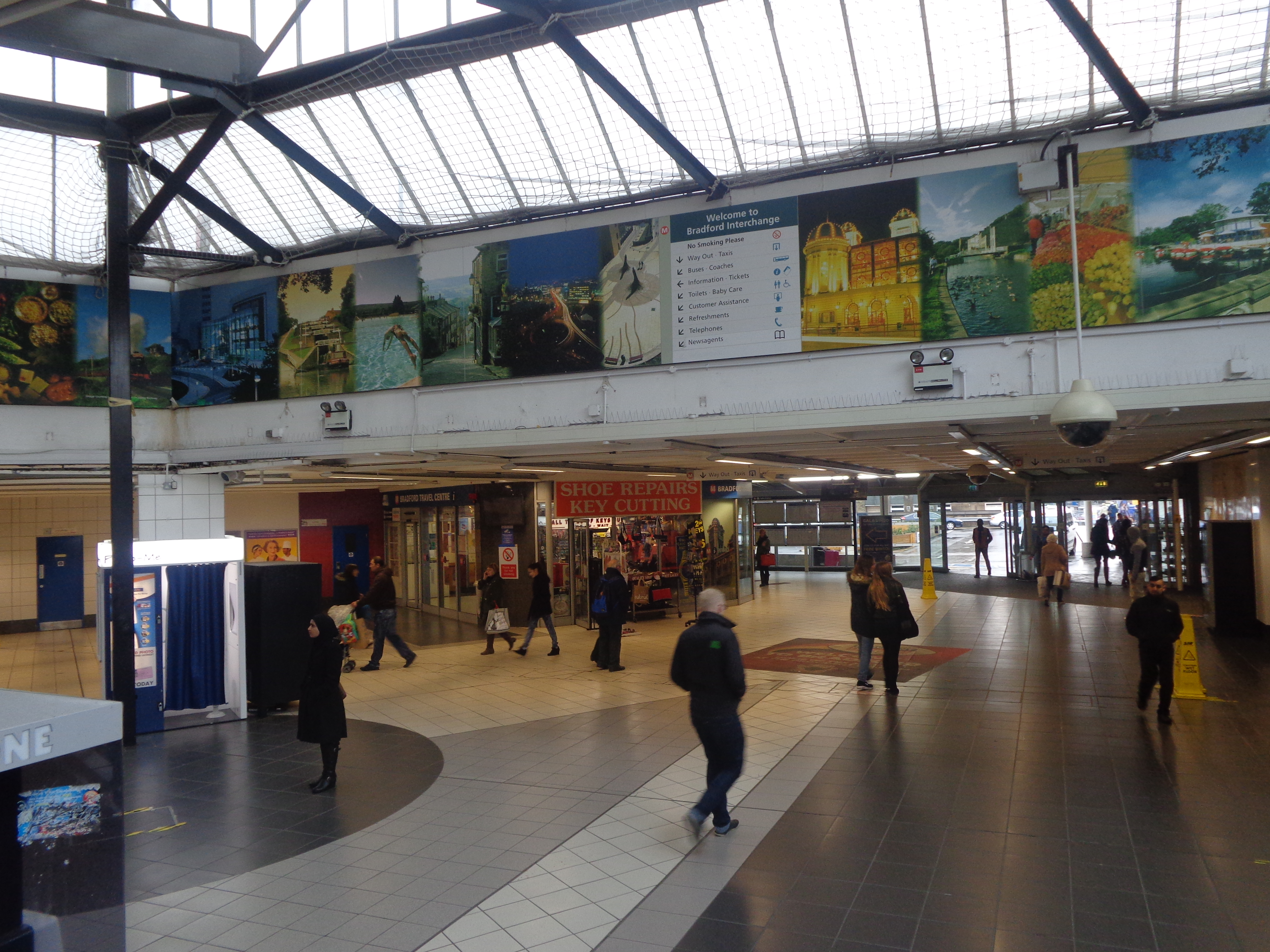 Concourse, Bradford Interchange. Taken on the afternoon of Saturday the 8th November 2014.